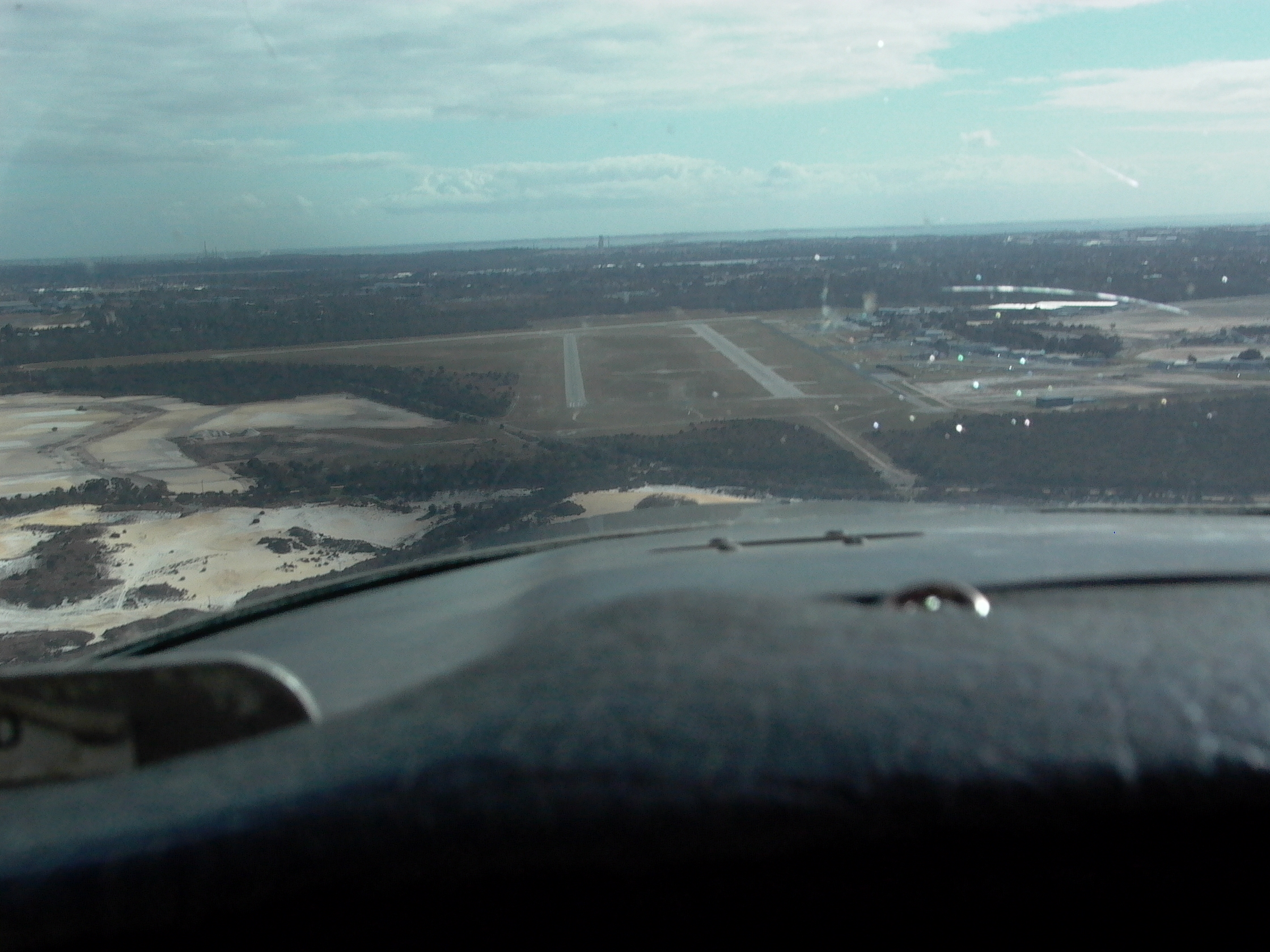 Own photograph showing parallel runways at Jandakot Airport WA